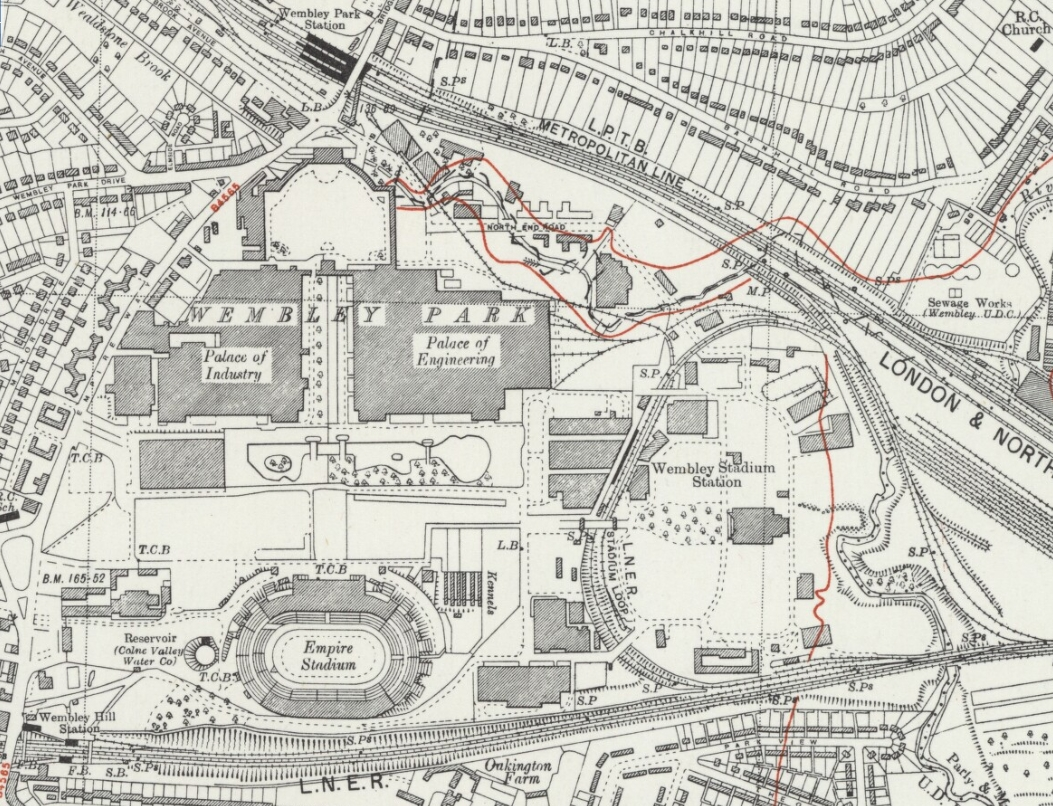 Ordnance Survey Map of Wembley Park area, London.